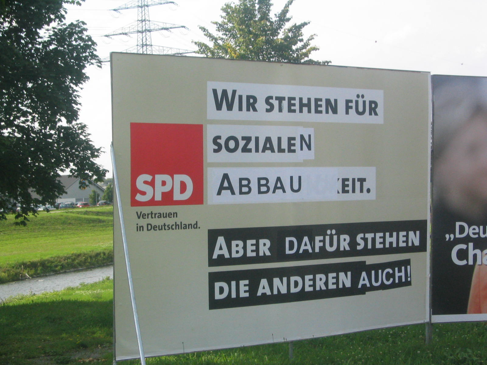 Adbusting: Election poster of the Social Democratic Party of Germany (SPD) für the Bundestag election in 2005.Original text: „Wir stehen für soziale Gerechtigkeit. Aber wofür stehen die anderen?“ ("We stand for social justice. But what do the others stand for?").New text: „Wir stehen für sozialen Abbau. Aber dafür stehen die anderen auch.“ ("We stand for social degradation. But the others stand for that, too.")